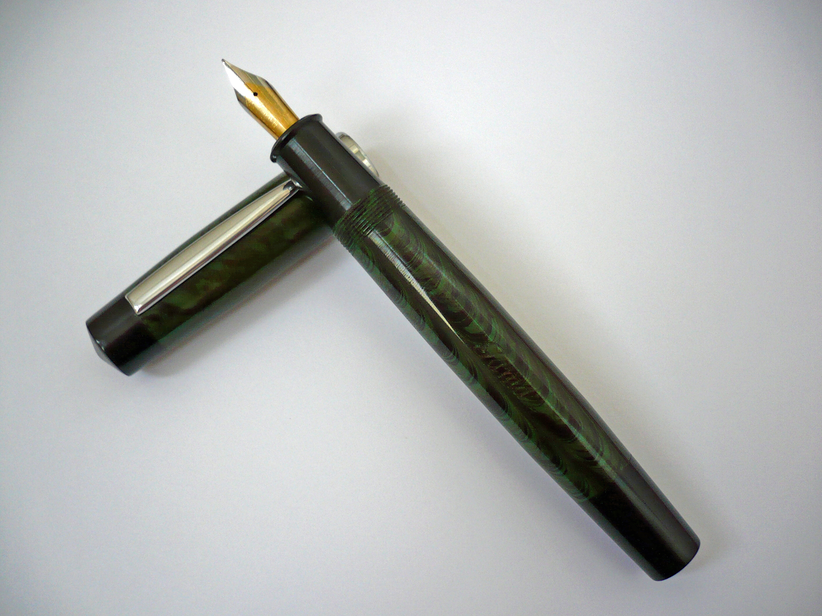 Gama Supreme Flat Top ebonite fountain pen. This is an example of a large or jumbo sized ebonite eye dropper fountain pen that was handmade in 2014 by Gem & Co pen specialists in Chennai, India. On the pen the tool marks from turning the pen out of green/black rippled and black ebonite rods are visible. The ebonite postable cap features a metal clip and cap band to prevent cracking the cap rim. The section and feed of the pen are also made out of ebonite. Dimensions: Length capped: 165 mm Length uncapped: 147 mm Length posted: 192 mm Cap length: 75.5 mm Cap diameter: 19 mm Cap breather hole(s): 1 hole for pressure equalization during uncapping Barrel length: 104 mm Barrel diameter: 17.3 mm Section length: 22 mm Section diameter: 15.5 mm tapers to 13.4 mm Feed diameter: 6.35 mm (¼ inch) Nib exposed length with the OEM Indian № 10 Iridium Point Germany: 22 mm (size wise a German #6 nib equivalent) Ink capacity: 3.5 ml (usable volume for storing ink in the barrel) Barrel weight: 29 g (filled with ink) Cap weight: 13 g Total weight: 42 g (filled with ink) Turns to uncap: 5½ turns